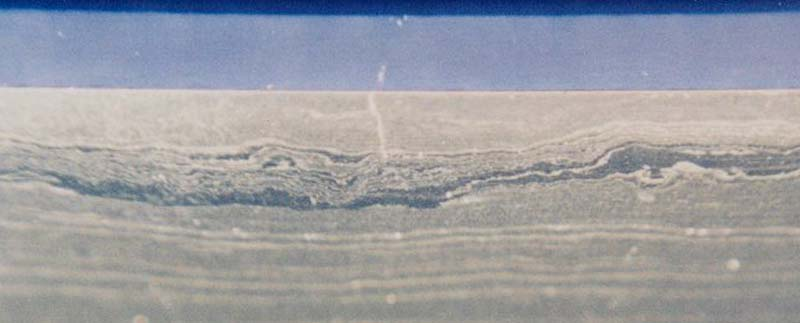 As can be seen the very fine carbon steel composite is 0.8% and 0.18% carbon steel shows no hint of carbon migration. The blue back flat is .070 inches.There is no slag inclusions or bad welds. This composite will harden like a file and yet be ductile at the same time. This shows the beginning of glass steel without any alloys.It is just high and low carbon steel.